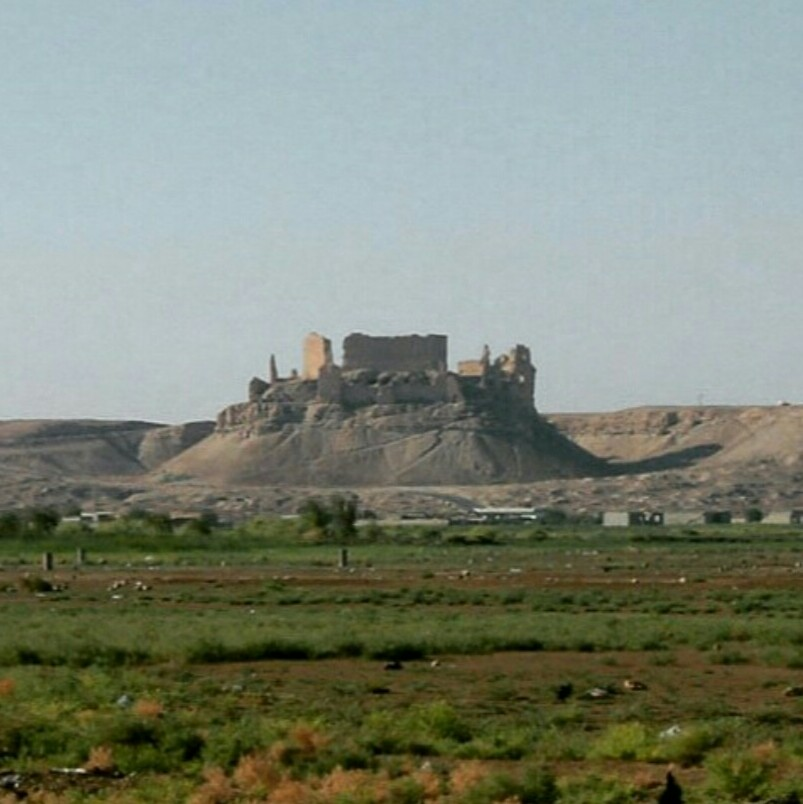 Castle Rahba from Mayadin City near Euphrates